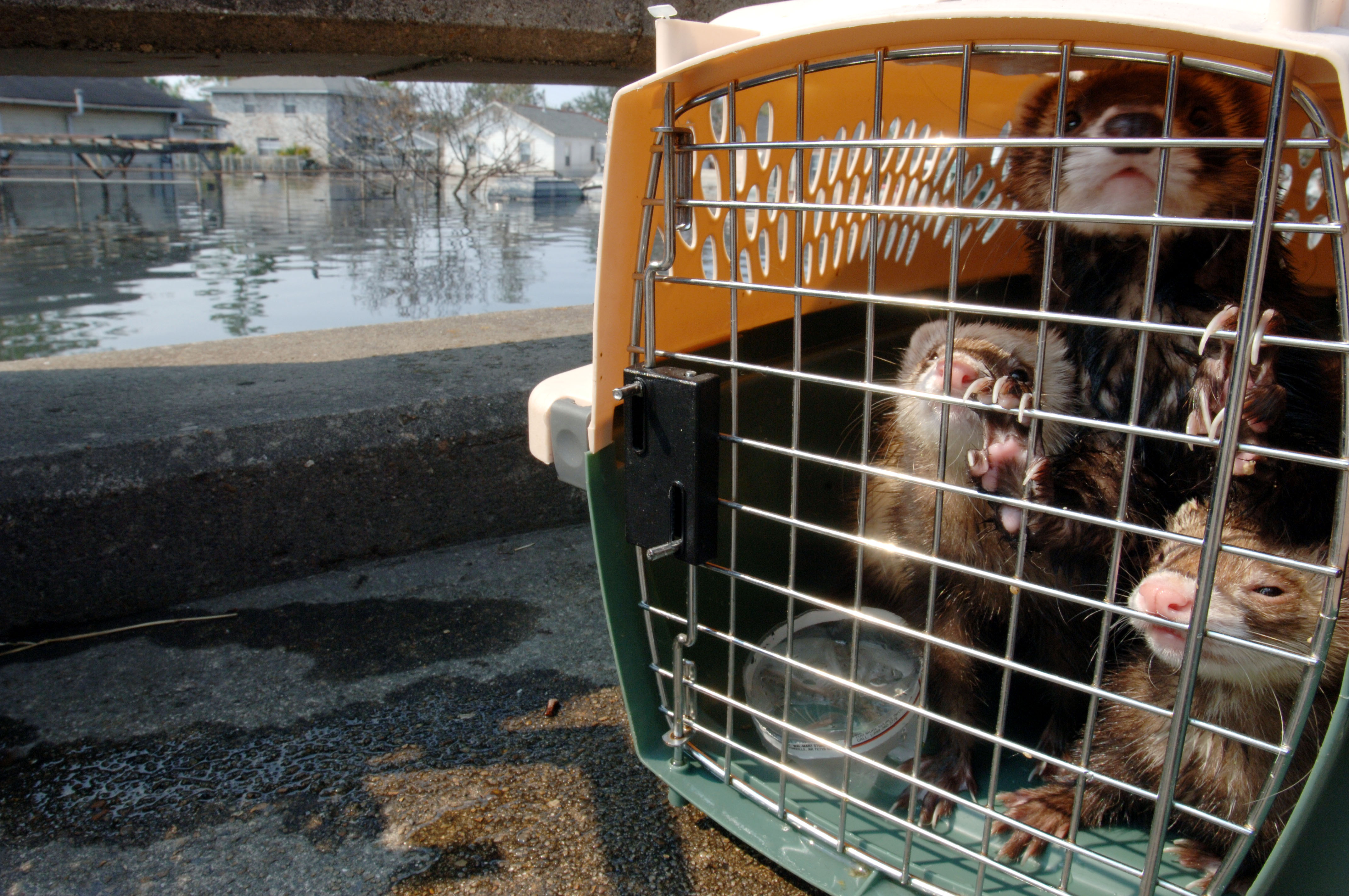 pets in animal carrier; floodwaters in background.